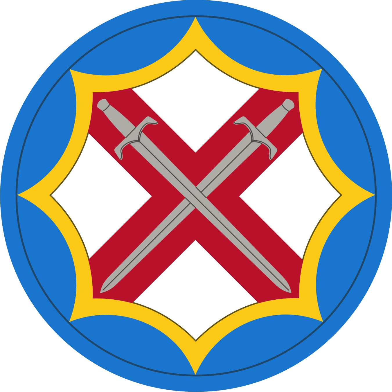 142d Battlefield Surveillance Brigade Shoulder Sleeve Insignia